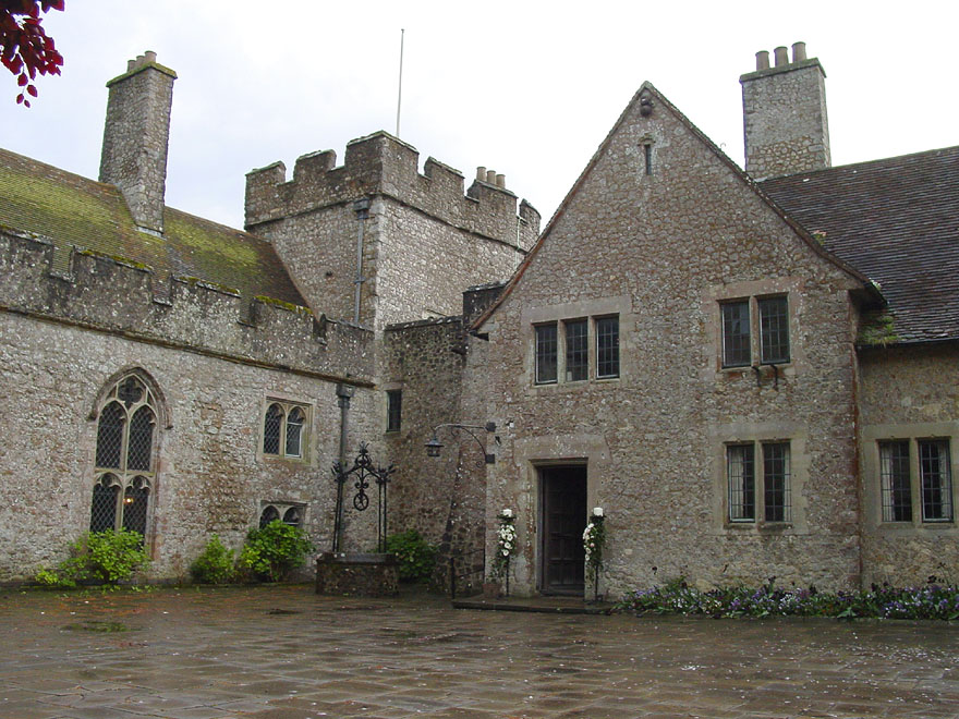 Lympne Castle - the front entrance. Taken by David Edgar on 21st May 2006.